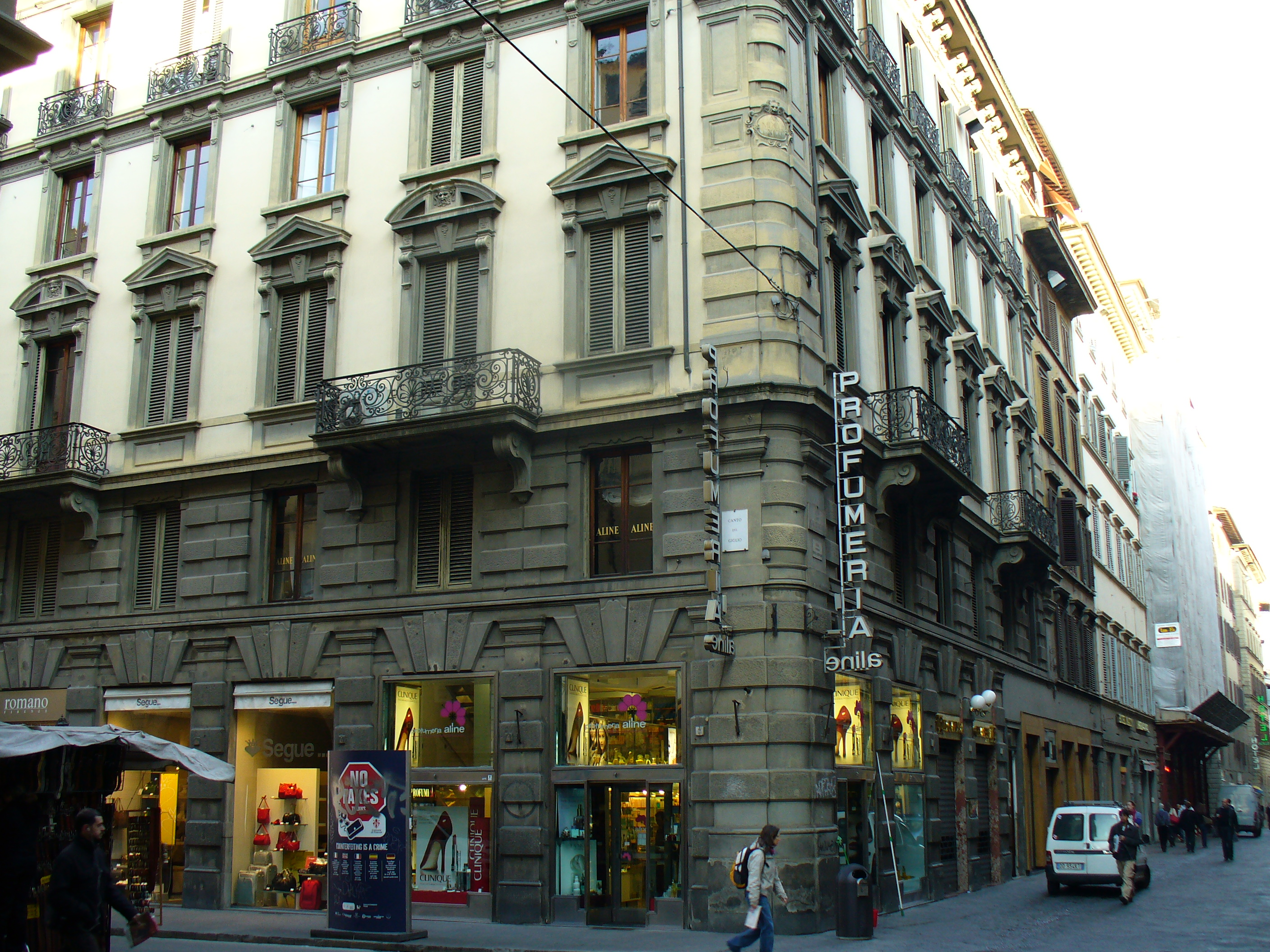 Via dei Calzaiuoli